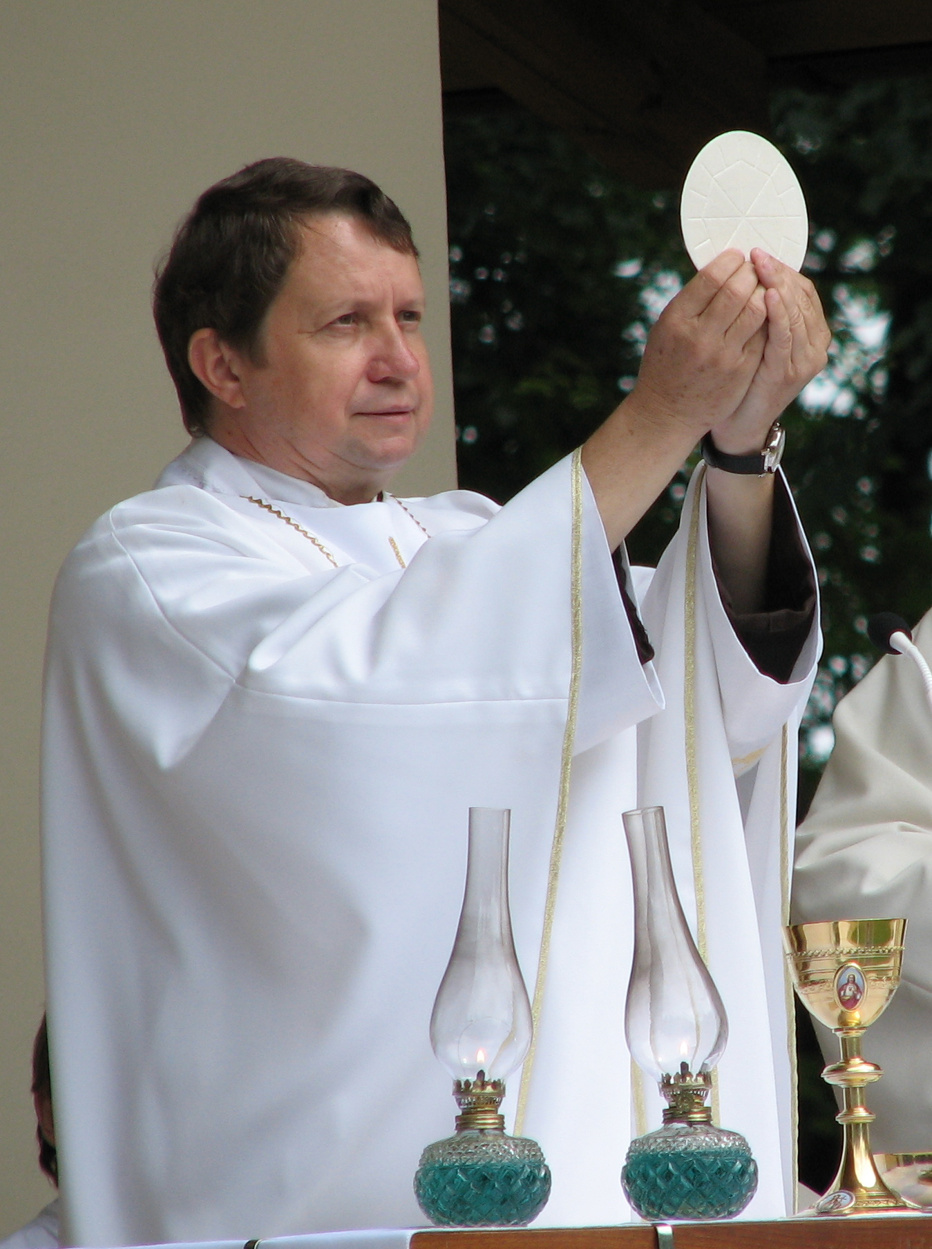 Vojtech Kodet the pilgrimage chapel at Mount St.. Anthony (Blatnice) 2011